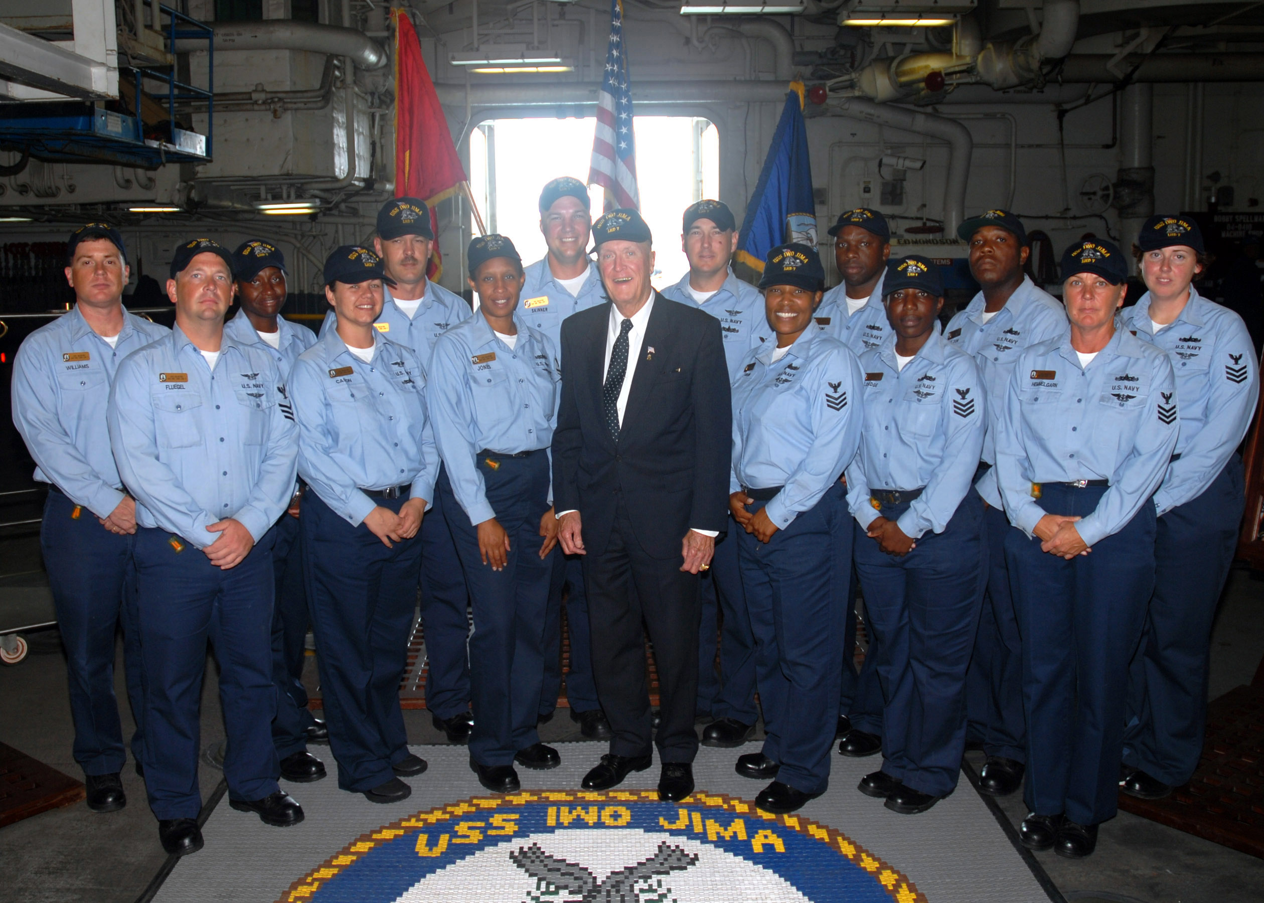 NORFOLK, Va. (Aug. 28, 2007) - The third Master Chief Petty Officer of the Navy (MCPON) Robert J. Walker poses with chief petty officer selectees aboard USS Iwo Jima (LHD 7). Walker was sworn in as the third Master Chief Petty Officer of the Navy Sept. 26, 1975, and served until his retirement on Sept. 28, 1979. MCPON was on board Iwo Jima to speak to the 15 selectees and share some words of wisdom. U.S. Navy photo By Mass Communication Specialist Seaman Bryant A. Kurowski (RELEASED